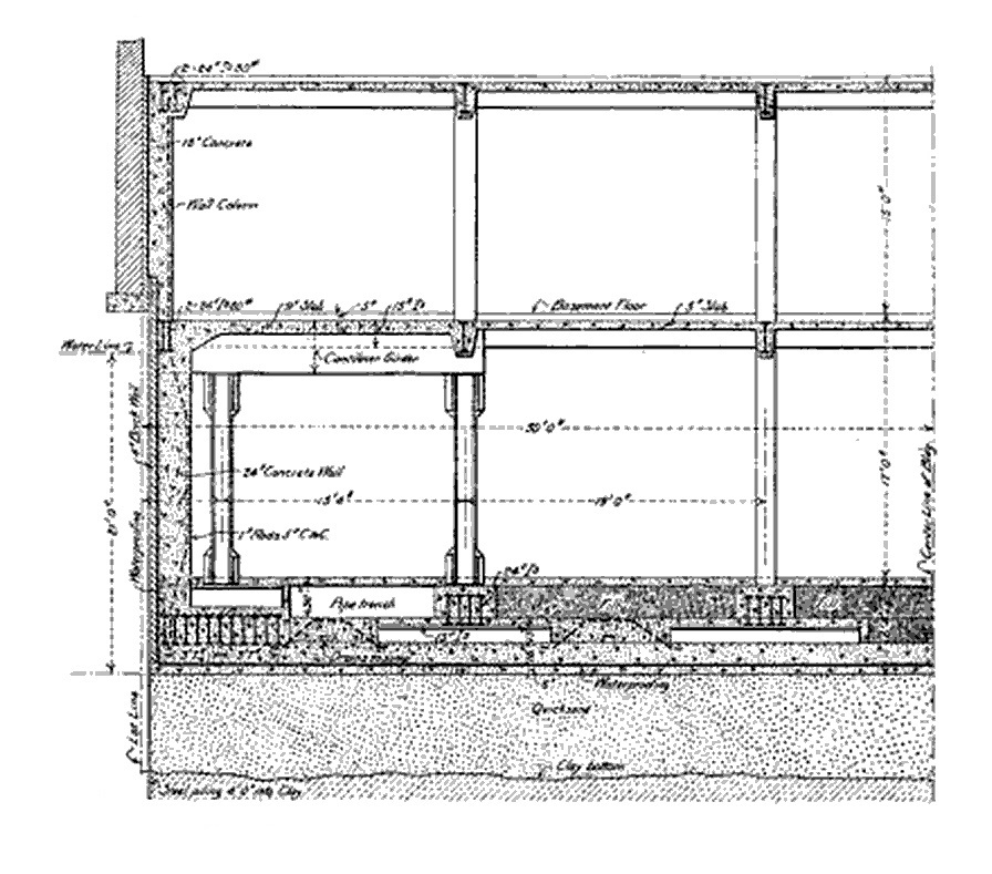 Cross-section of the design of the sub-basement and basement of the Alfred A. Pope Building (later known as the Halle Building) in Cleveland, Ohio, in the United States. The architect was Henry Bacon, the superintendent of design was L.J. Lincoln (Bacon's chief assistant), and the structural engineer F.A. Burdette. The image shows the grillage and thick floor of the sub-basement, and the way cantilever girders were used to help take load off the outer wall of the sub-basement. The image also shows how the load-bearing beams of the basement fit atop the "fulcrum" beams in the sub-basement, and helped to hold the cantilever girders in place at their inward end